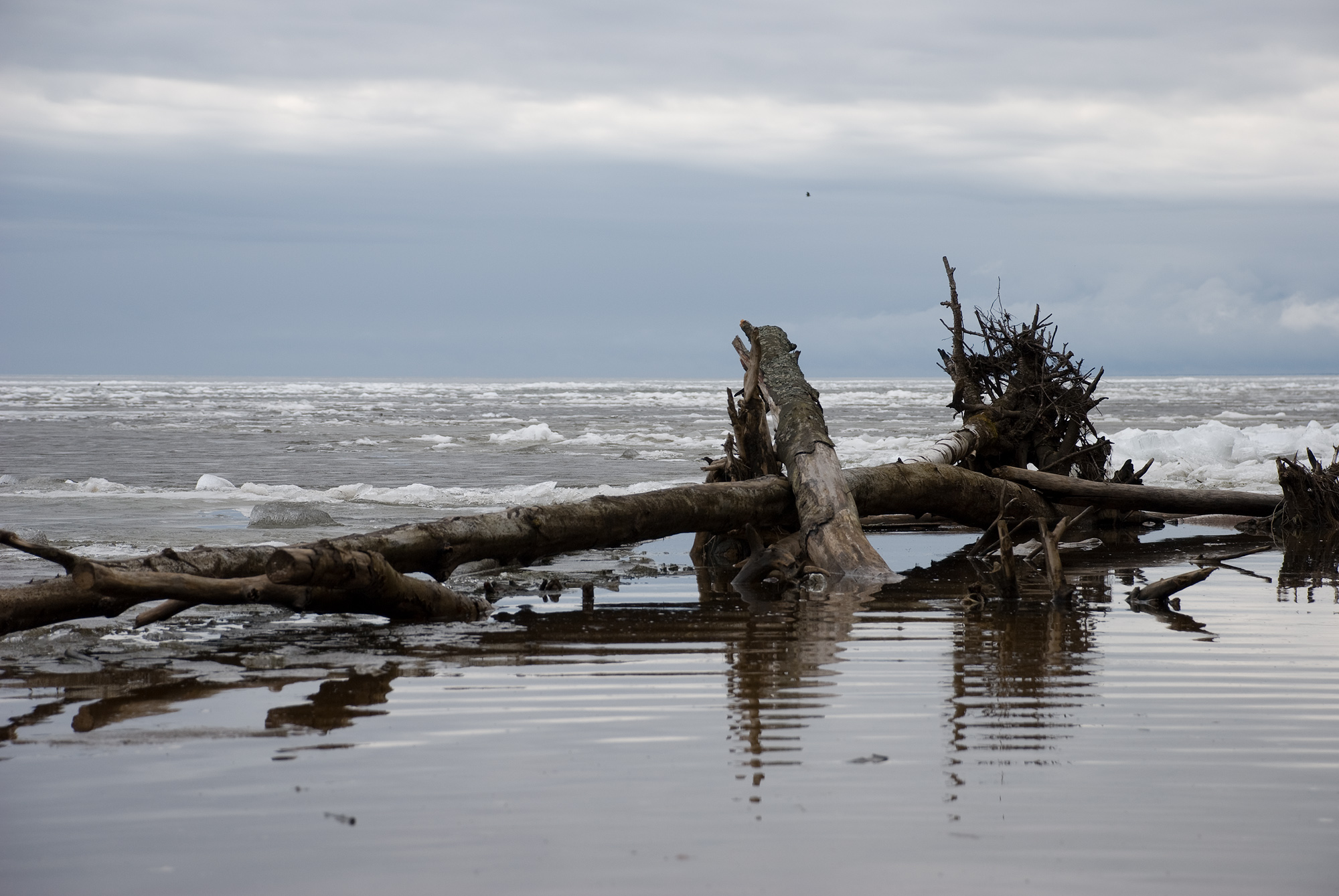 Rybinsk Reservoir in April